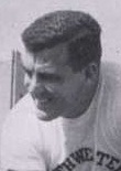 Ara Parseghian head coach of the 1956 Northwestern Wildcats football team.